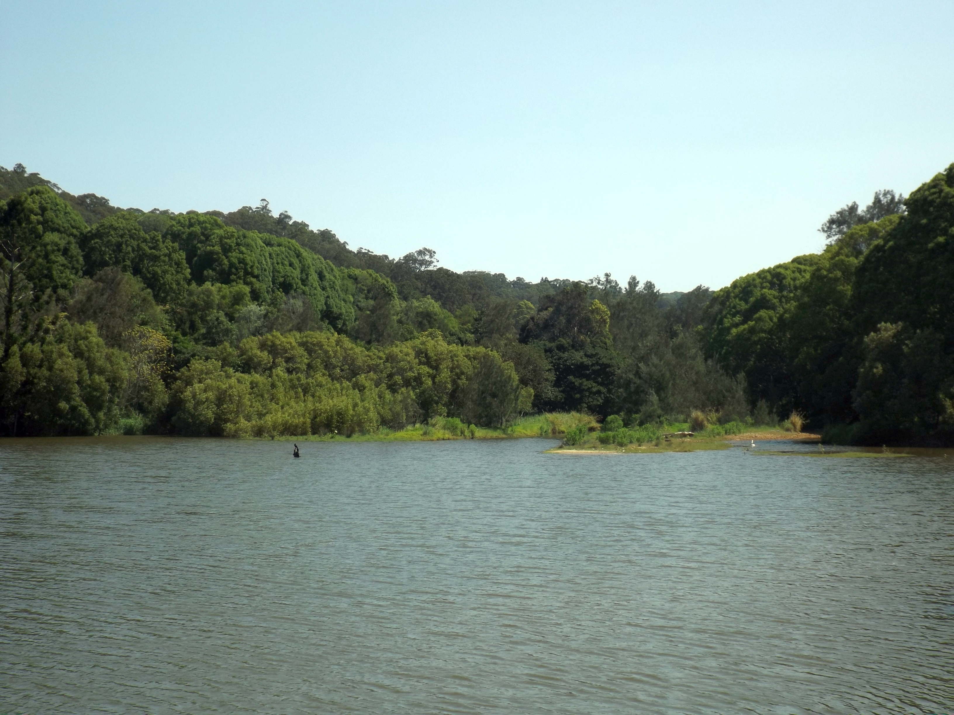 Photo of Currumbin Creek at Robert Neumann Park in Currumbin Valley, Gold Coast City, Queensland, Australia.